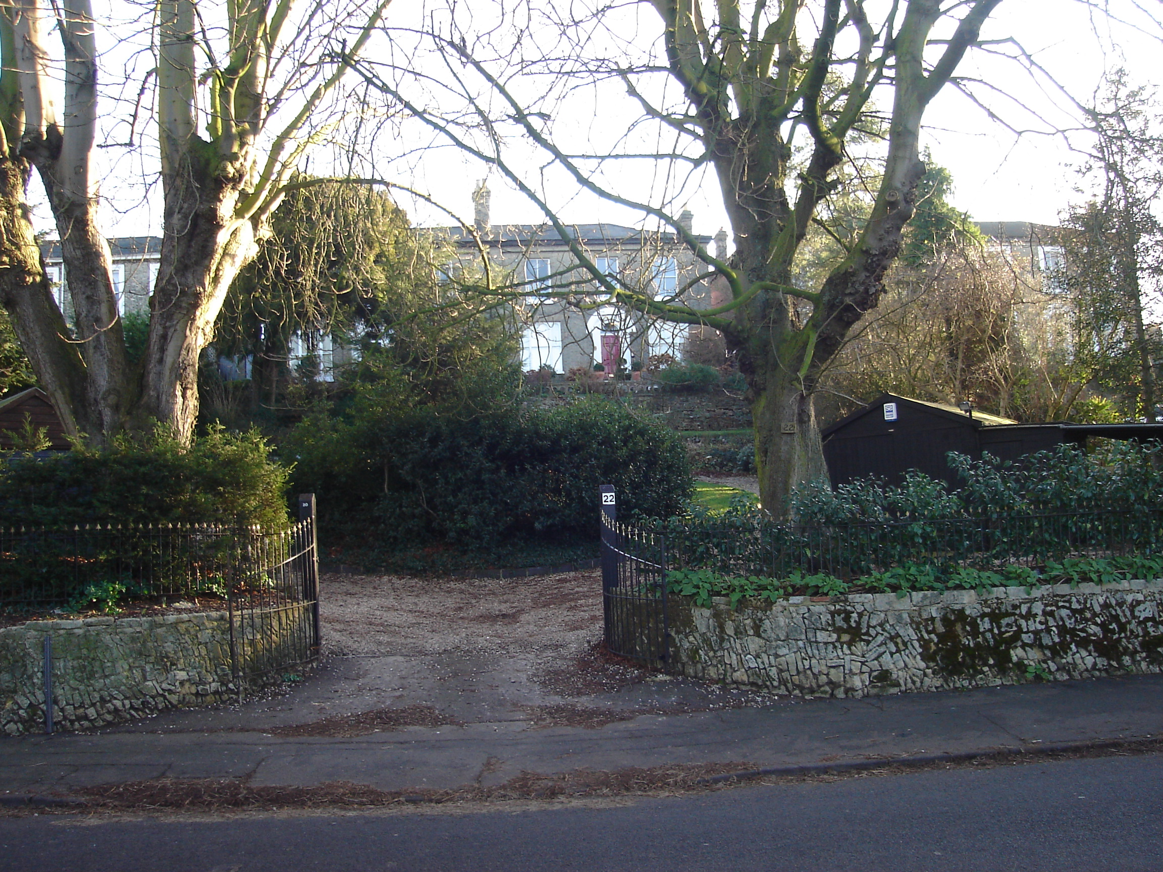 Victorian housing in the Golden Triangle, Norwich